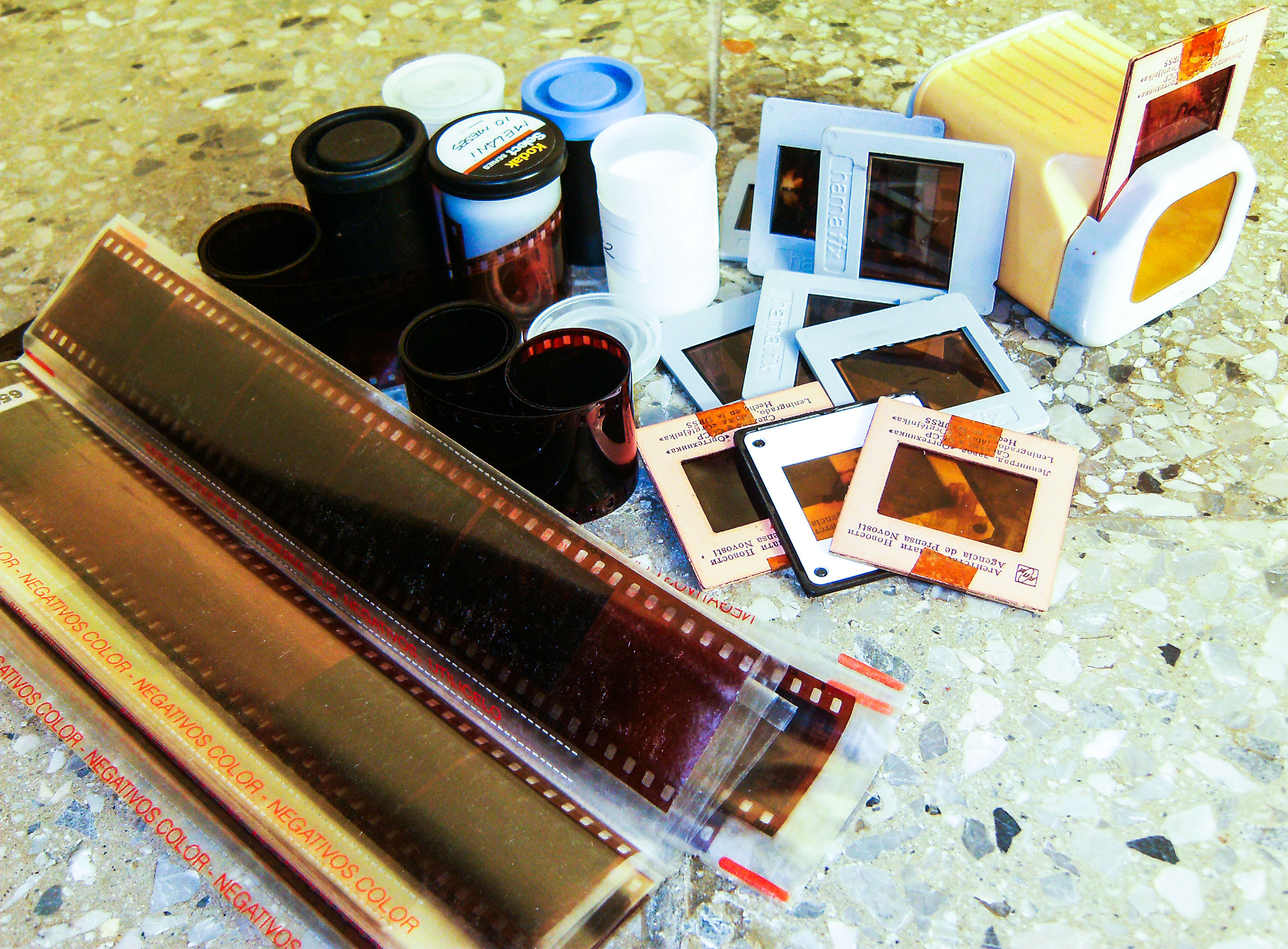 Photographic Celluloid Negativ and Reversal 35mm film.